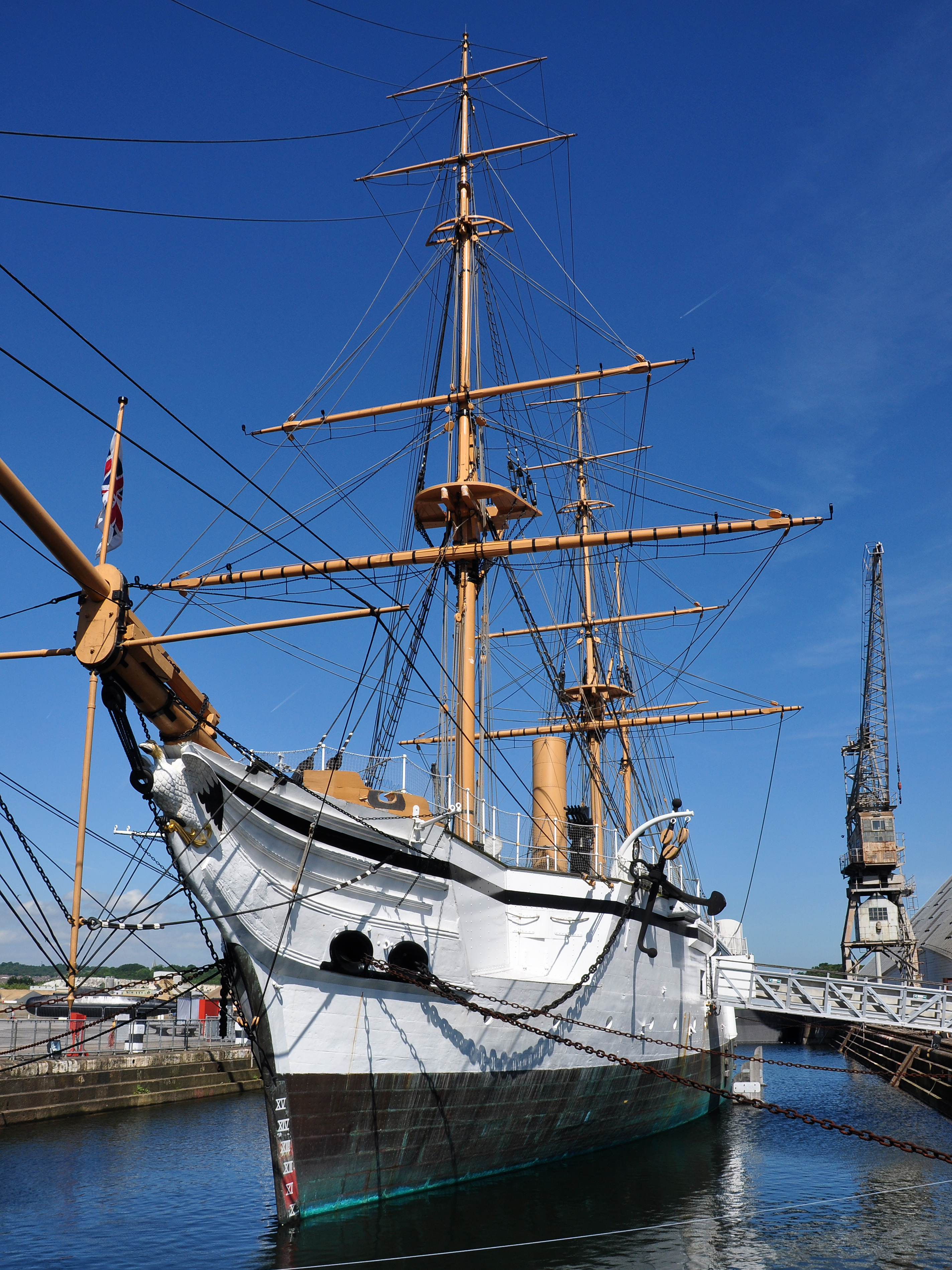 HMS Gannet moored in Chatham Dockyard, Kent.